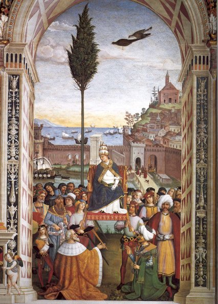 Death of Pope Pius II from Pinturicchio